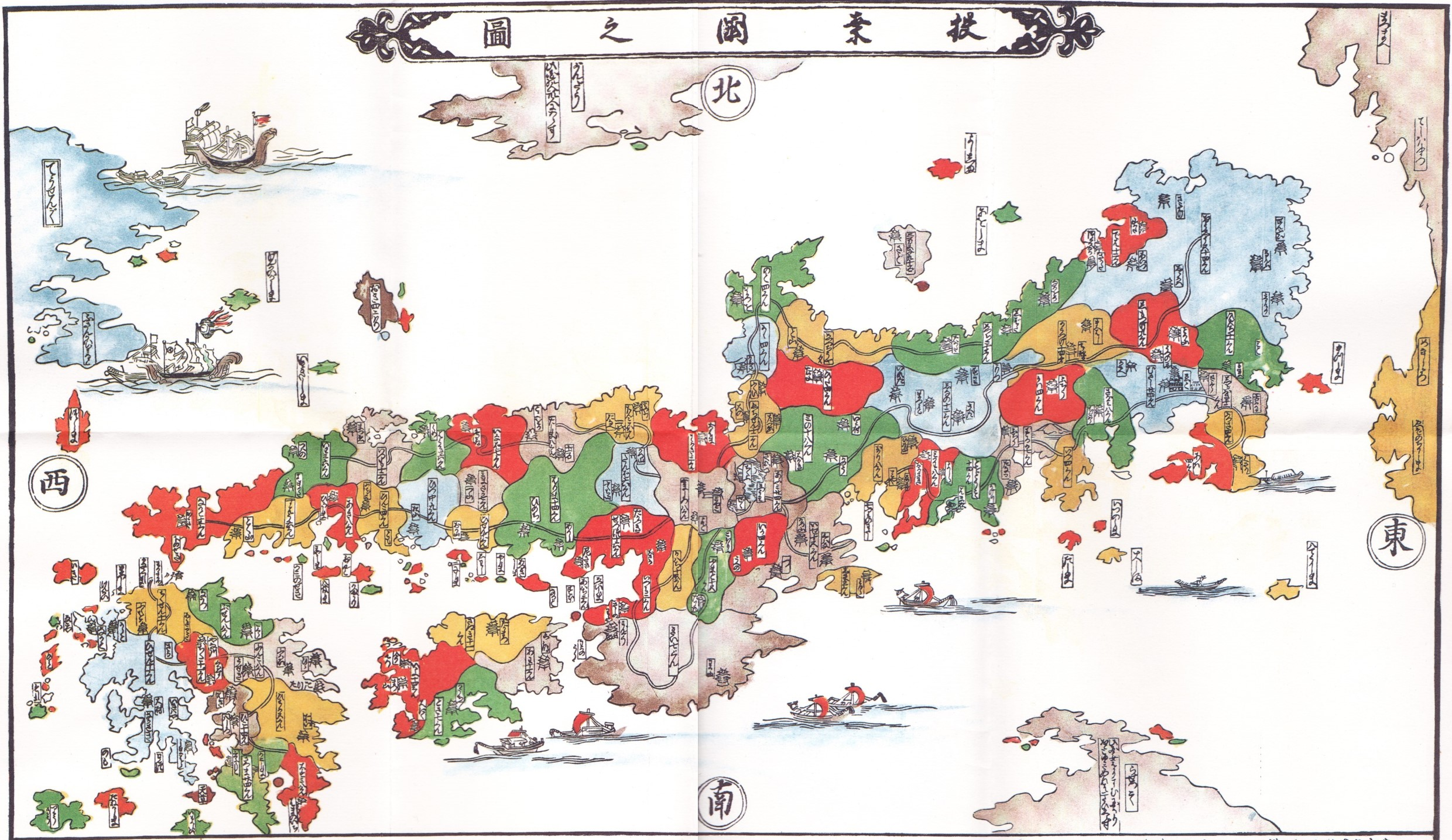 Map of Japan by Nakabayashi